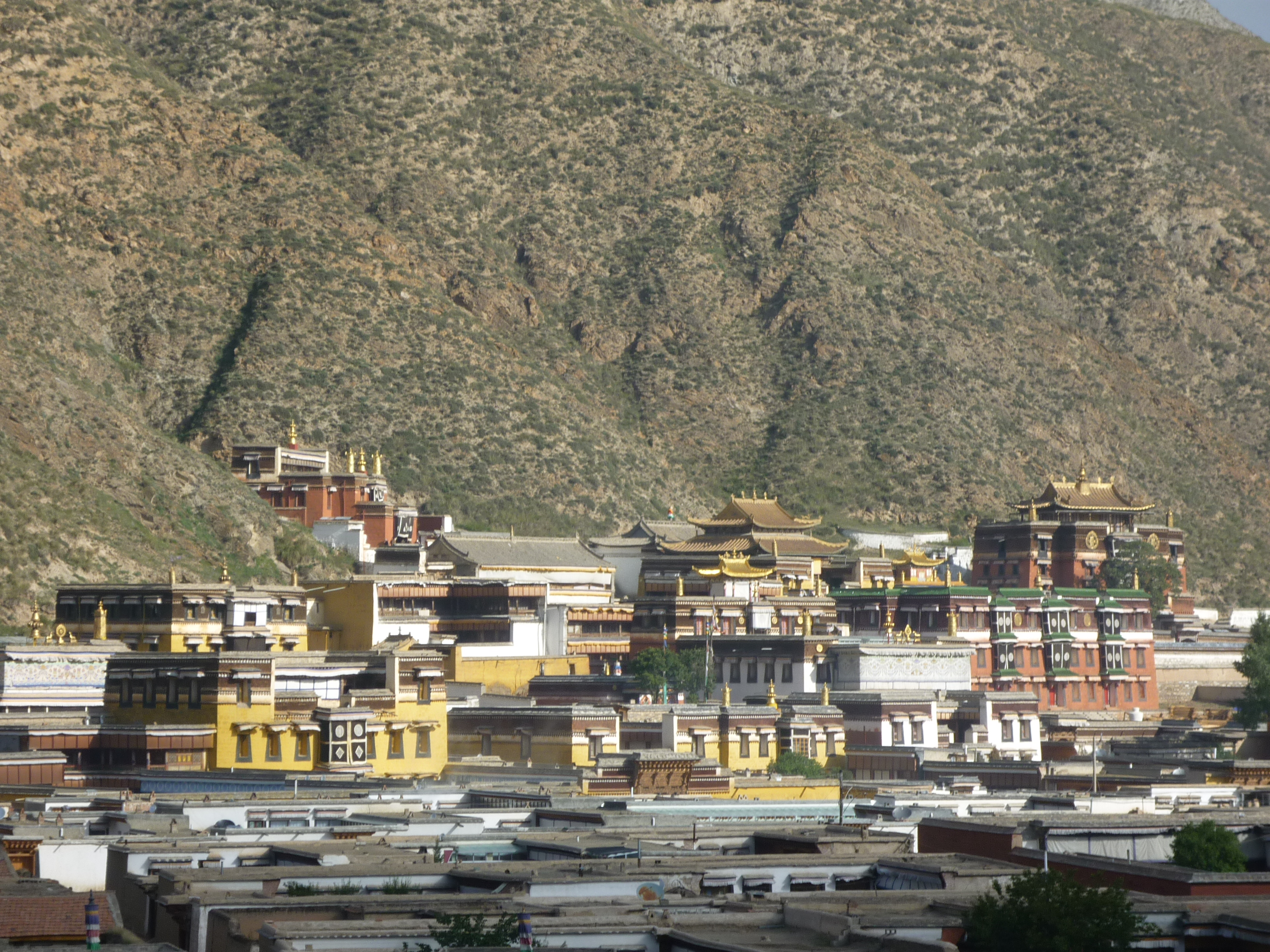 Labrang Monastery (Tibetan: བླ་བྲང་བཀྲ་ཤིས་འཁྱིལ་ Wylie: bla-brang bkra-shis-'khyil